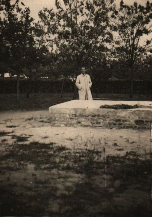 Petar Peshev, Prilep